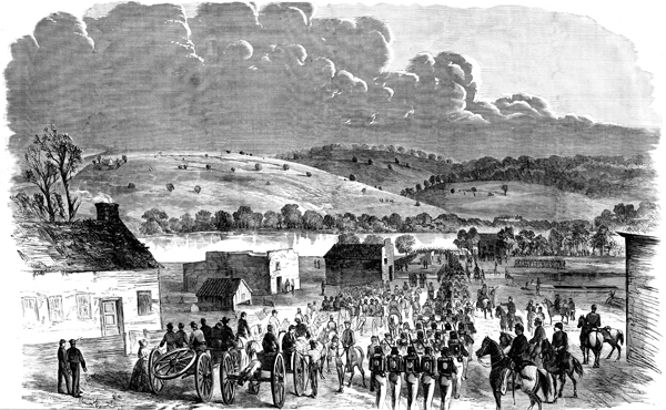 Battle of Ball’s Bluff: General Stone’s Division at Edward’s Ferry, Oct. 20, 1861